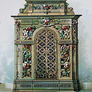 A fireplace decorated with maiolica (Hamburg)